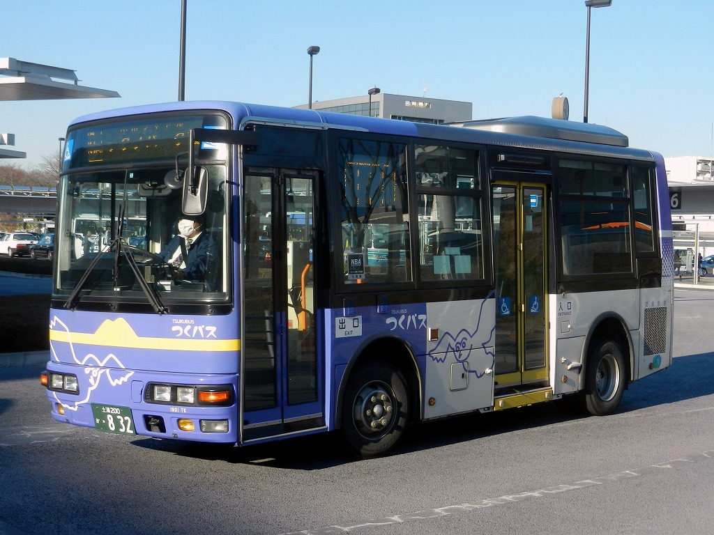 Kanto-railway bus (Tsukuba-North depot) Mitsubishi Fuso Aero Midi ME(PA-ME17DF) for Tsukuba city community bus "Tsuku-bus"